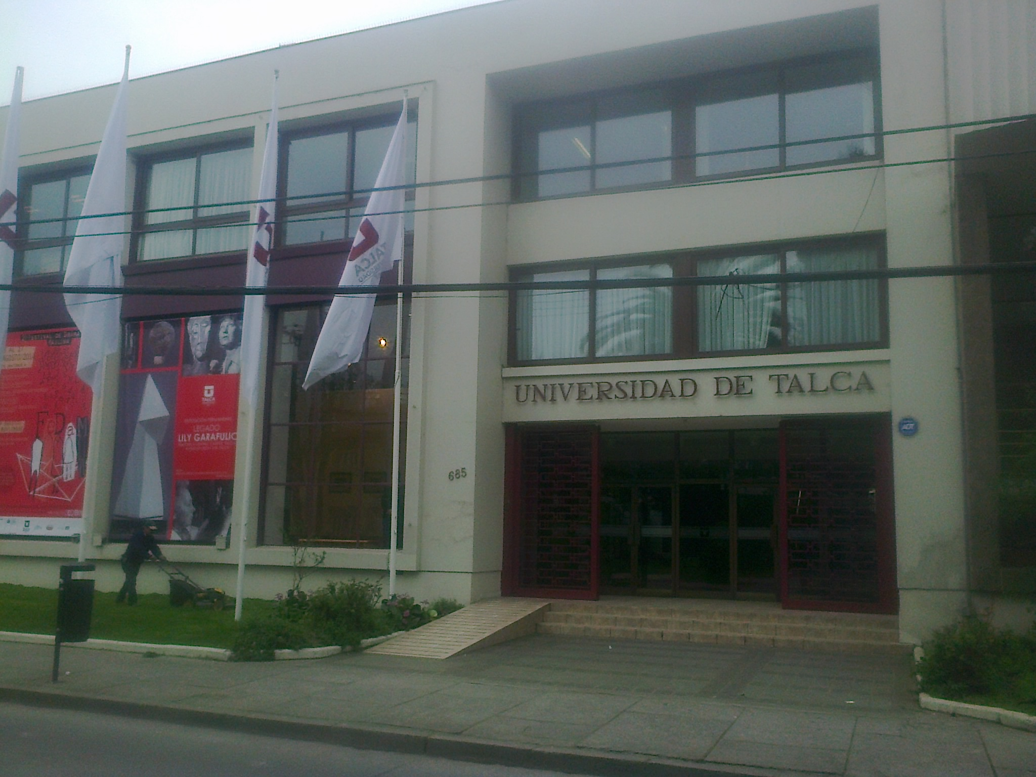 Headquarters of Talca University